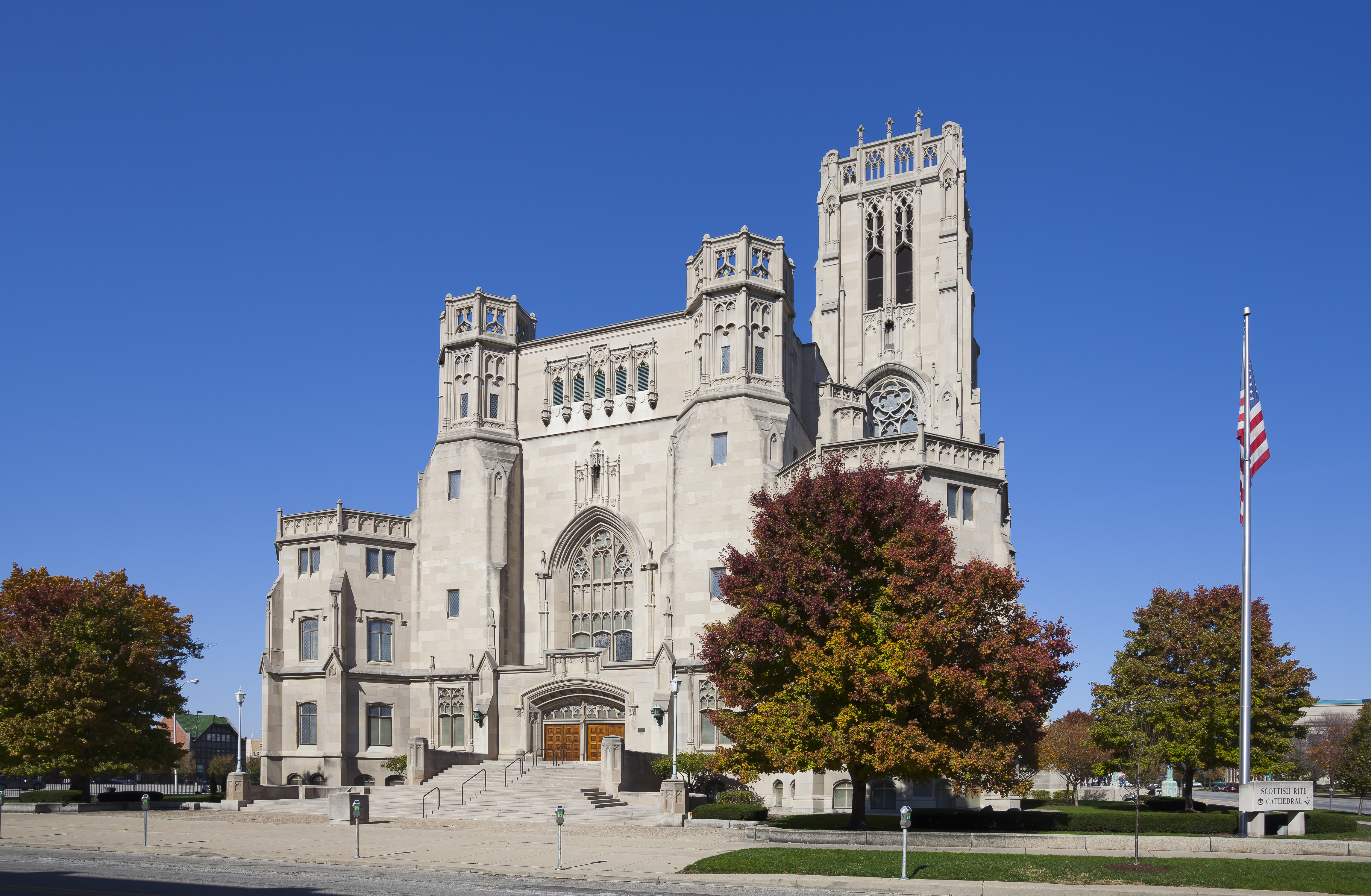 Scottish Rite Cathedral, Indianapolis, USA